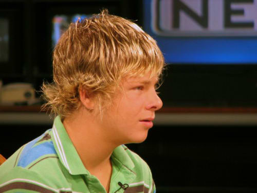 Photo of Jonathan Lipnicki